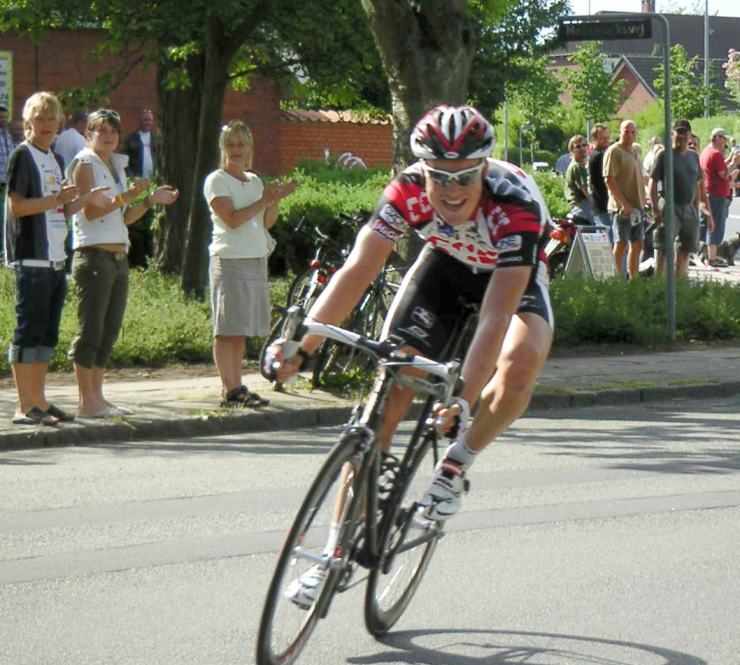 The Danish road bicyclerider Lars Ytting Back